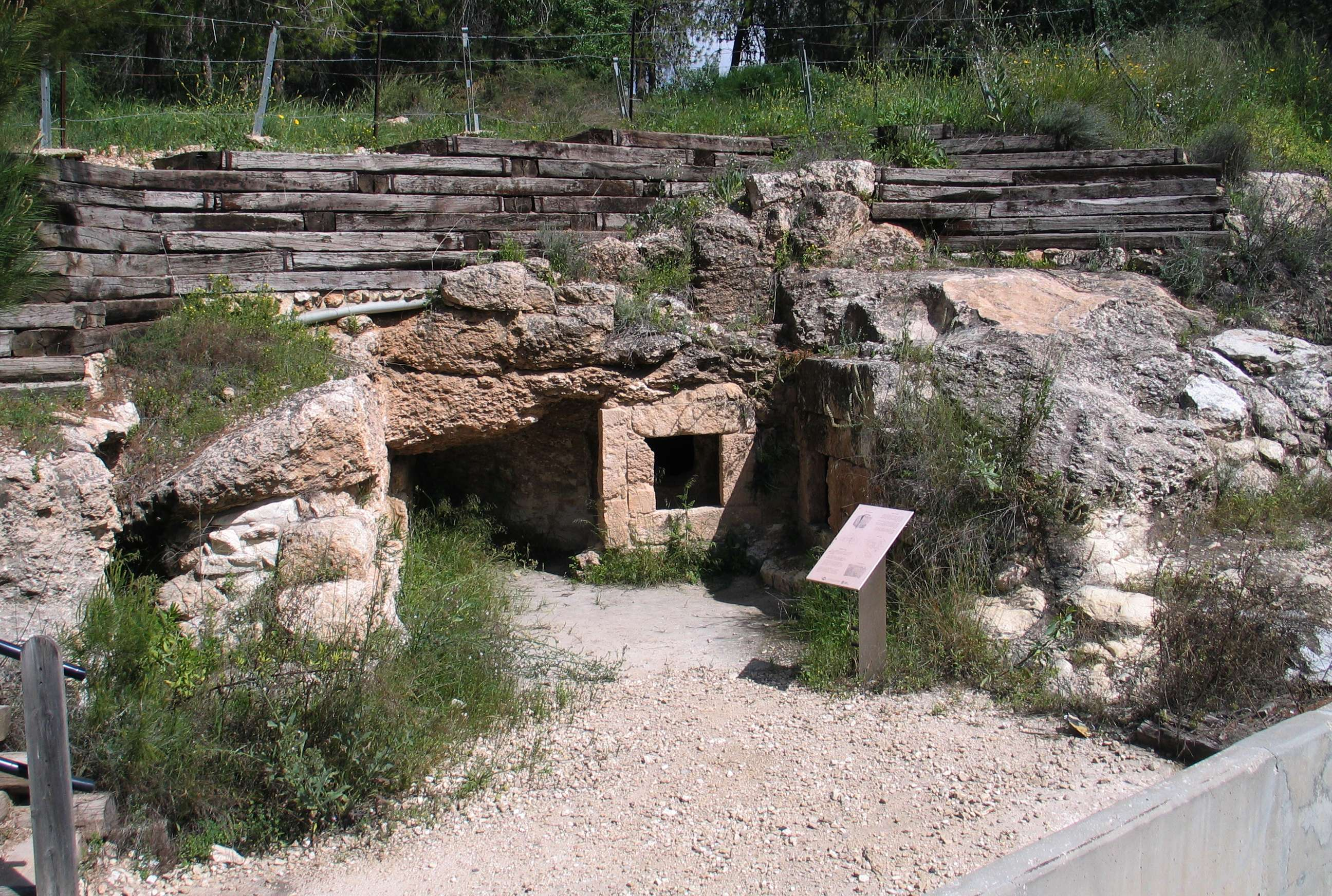 Burial cave adjacent to road 443 near Mevo Modiim, Israel.